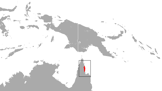 Cinnamon Antechinus (Antechinus leo) range